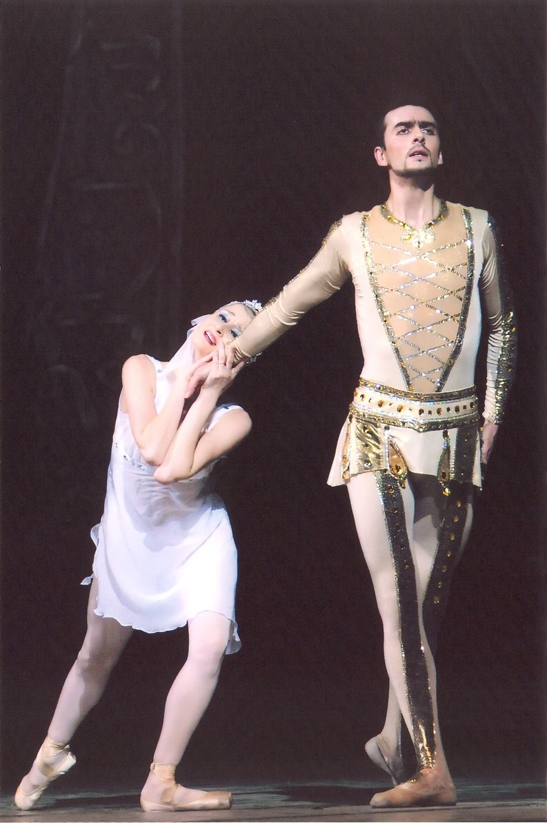 The photo was taken during a performance of Seven Beauties